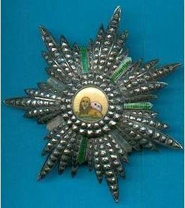 Description Ordre du Lion et du Soleil Date23 mai 2006 à 17:02SourceOwn workAuthorJb1902 auteur de l'articlePermission (Reusing this file) This work has been released into the public domain by its author, Jb1902 at French Wikipedia. This applies worldwide. In some countries this may not be legally possible; if so: Jb1902 grants anyone the right to use this work for any purpose, without any conditions, unless such conditions are required by law. Ordre du Lion et du Soleil